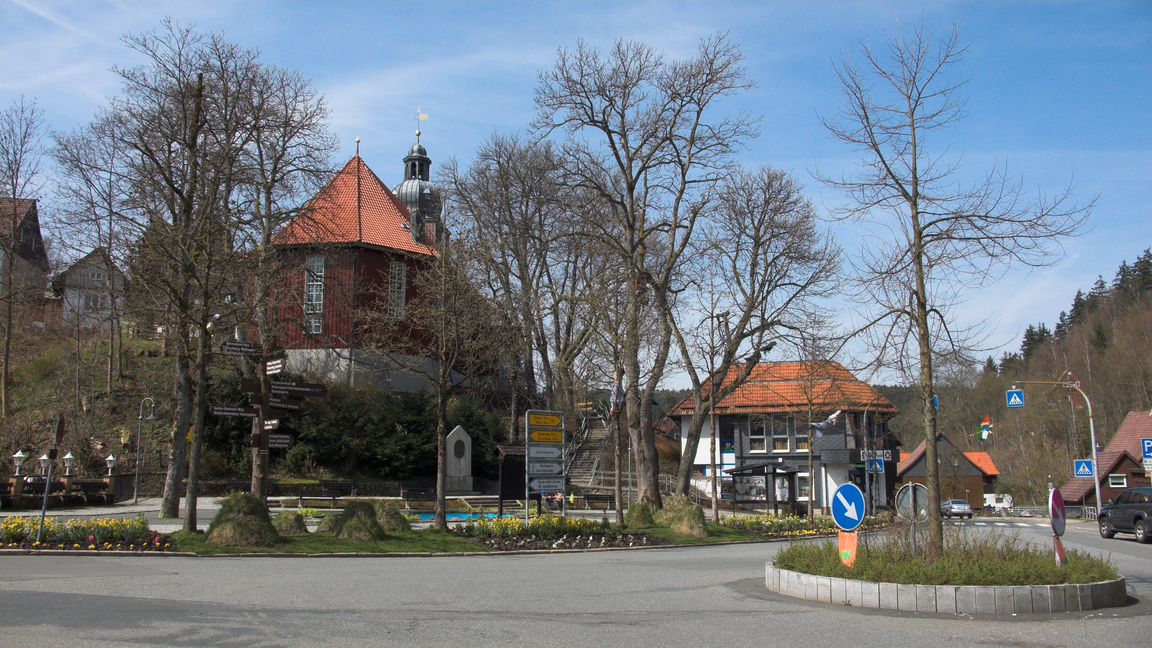 The Center of Altenau, Harz, Germany